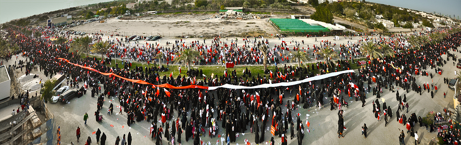 Panoramic image for march of nine March